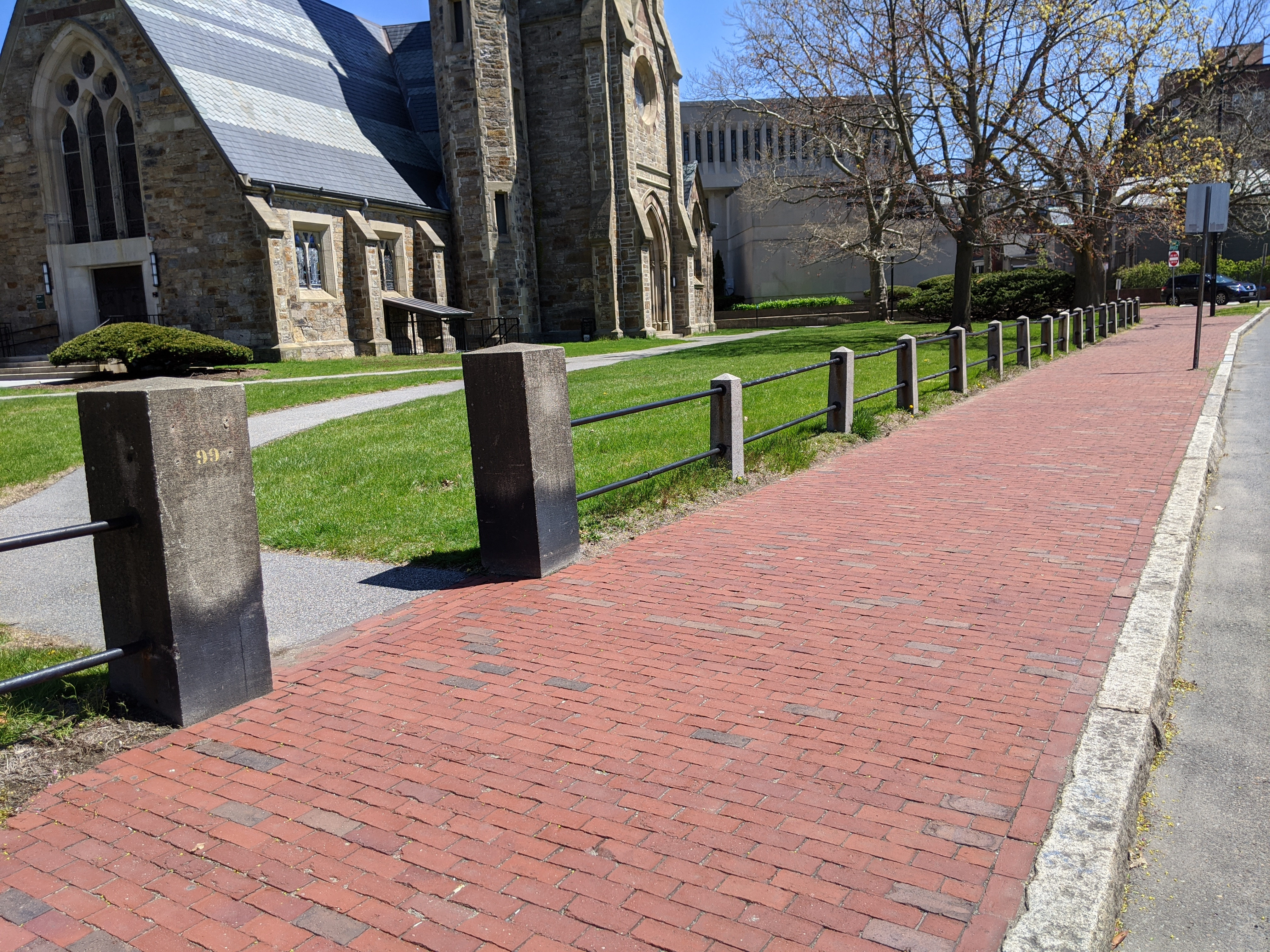 Brick sidewalk in front of former Episcopal Divinity School campus (now Lesley College, Brattle campus), 99 Brattle St., Cambridge, MA